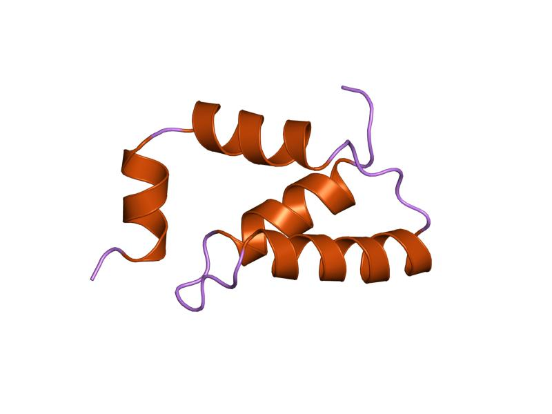 Cartoon representation of the molecular structure of protein registered with 2ezh code.